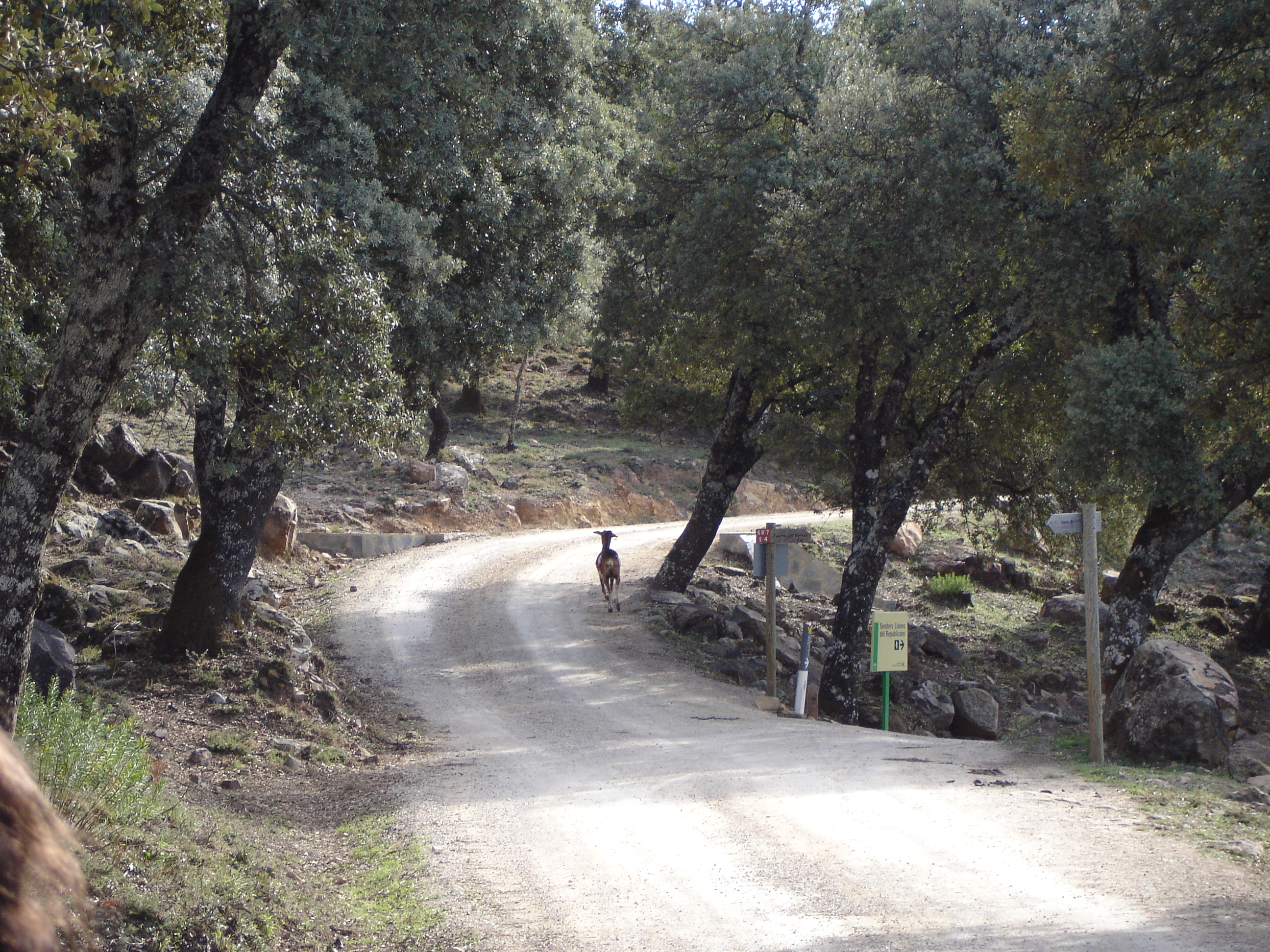 Capra in Villaluenga del Rosario, Grazalema Natural Park (Andalusia, Spain)